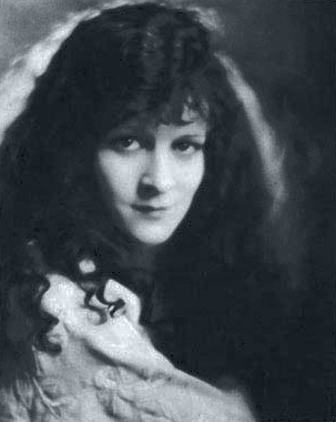 Publicity photo of Carol Dempster from Stars of the Photoplay